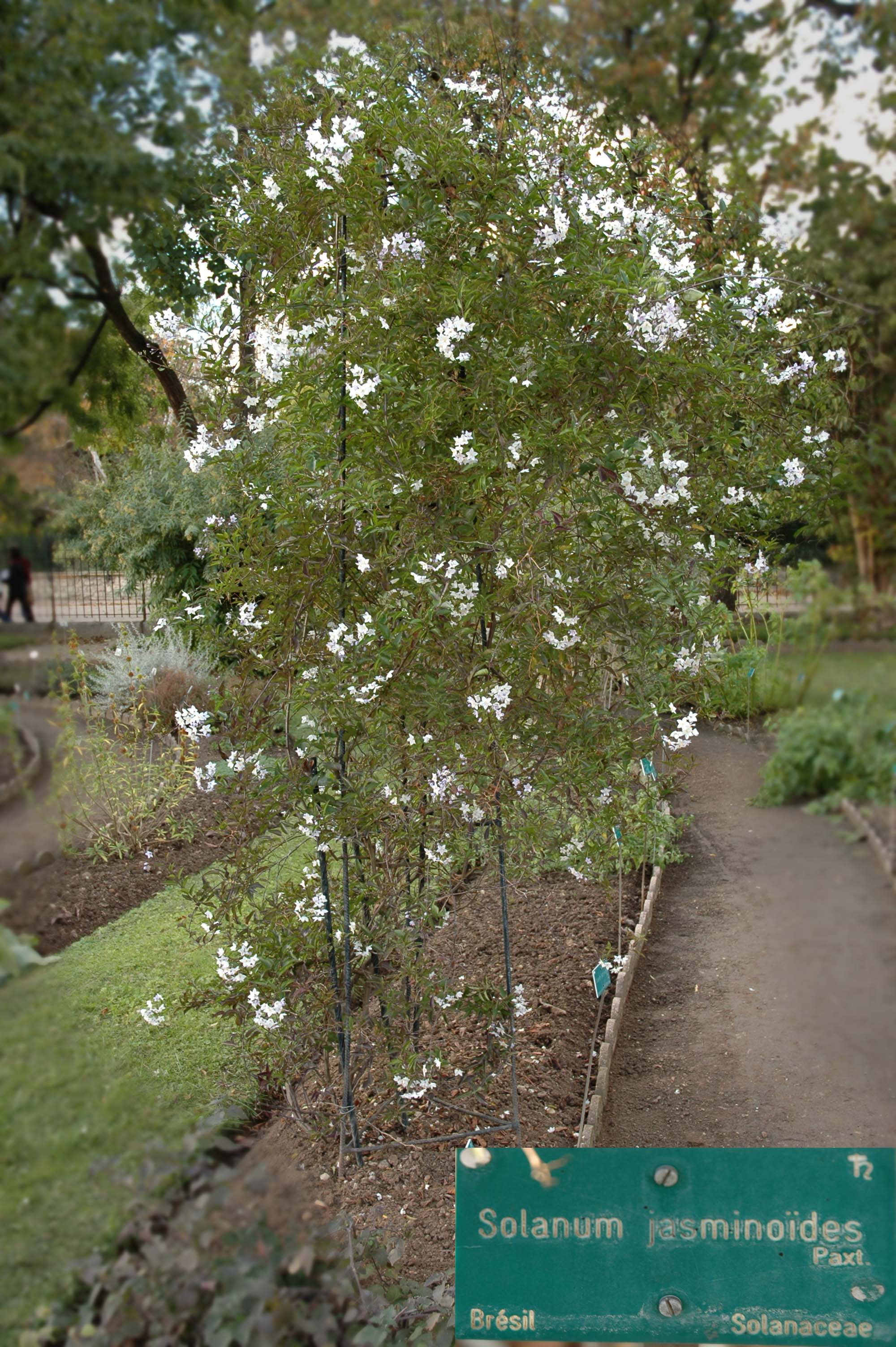 Solanum laxum (syn. Solanum jasminoides) in Jardin des plantes in Paris.